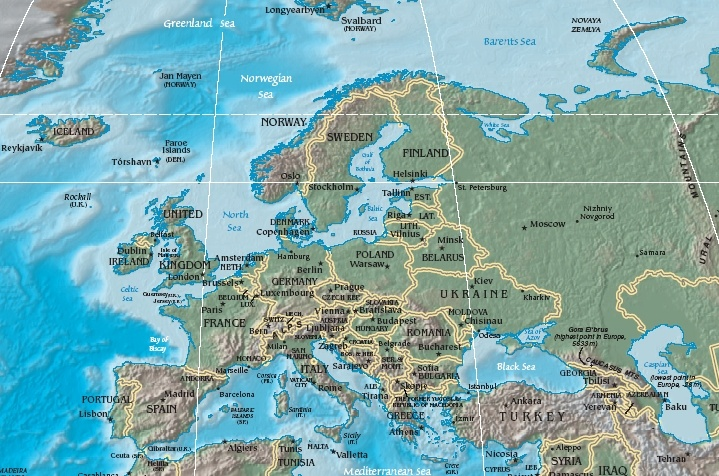 Terrain map of Europe, as cropping from the CIA's Physical Map of the World.